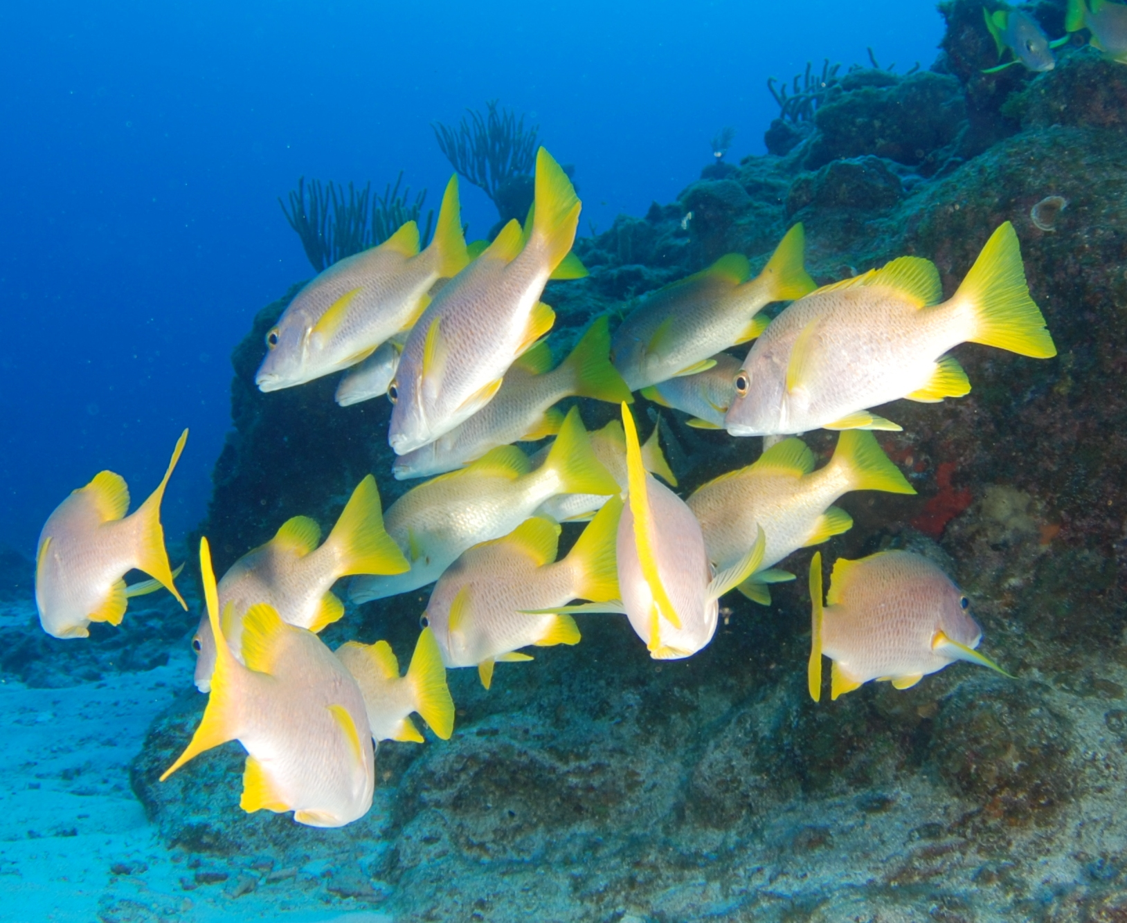 The photo shows schoolmaster snappers, not yellowtail snappers, which have a distinctive yellow midline and spots on the back.